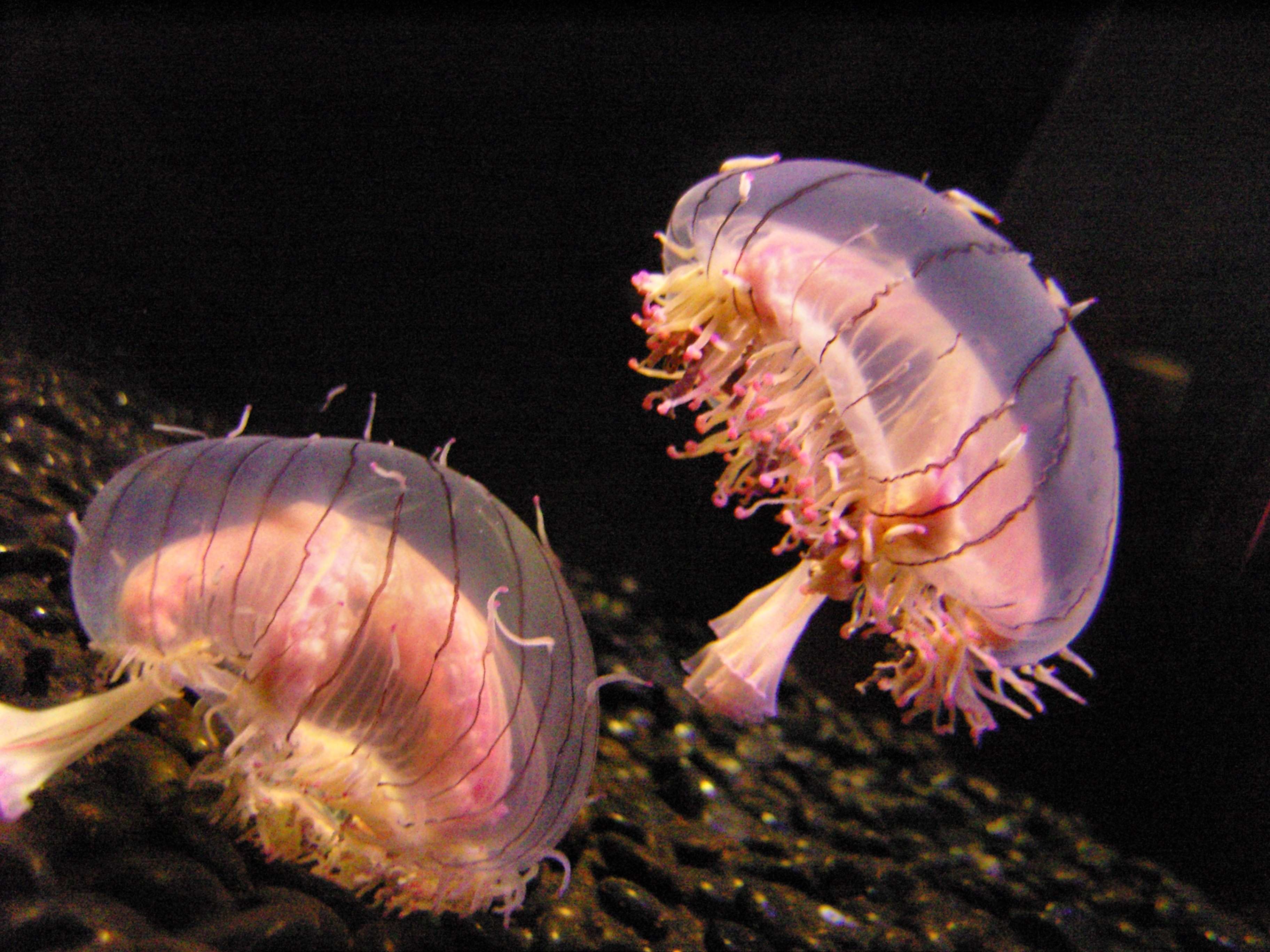 Flower Hat Jellyfish (Olindias formosa), Monterey Bay Aquarium, California.